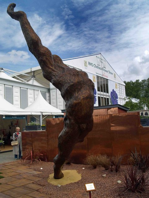 The RHS Chelsea Flower Show 2009 Statue seen before the Grand Pavilion at the Bullring entrance.